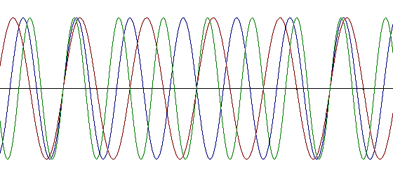 Three sine tones in a chord (major).